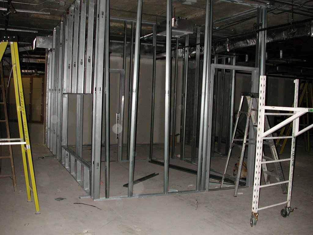 Light guage metal framing